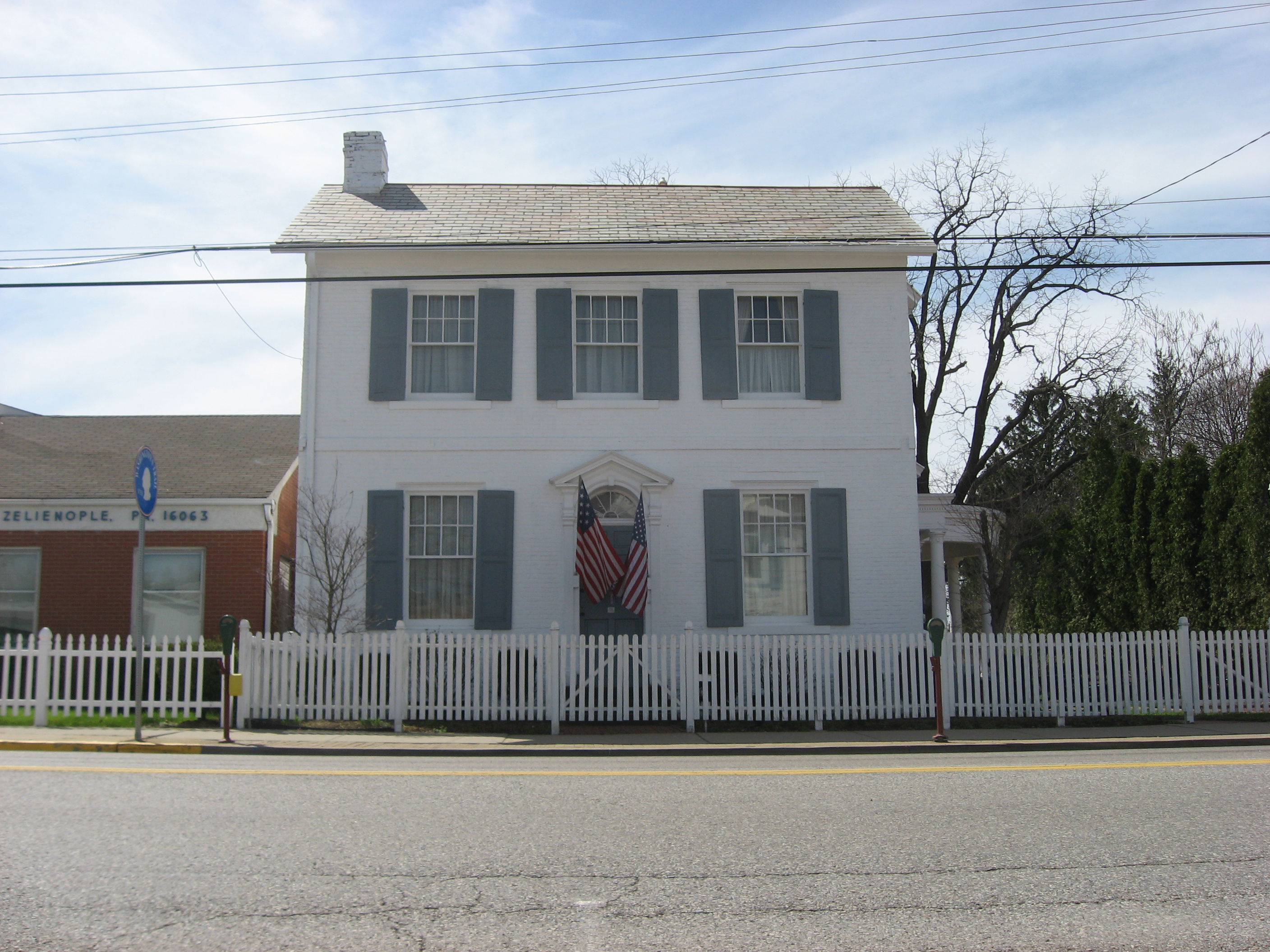 Front view of Passavant House, located at 243 S. Main Street in Zelienople, Butler County, Pennsylvania, United States. Visible on the left side of the picture is the Zelienople post office. Built in 1809, the house is listed on the National Register of Historic Places.